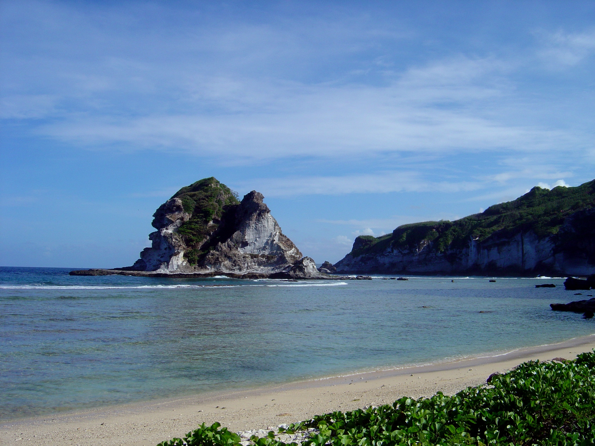 Bird Island, Saipan. Commonwealth of Northern Mariana Islands, Saipan.